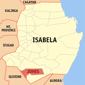 Map of Isabela showing the location of Jones